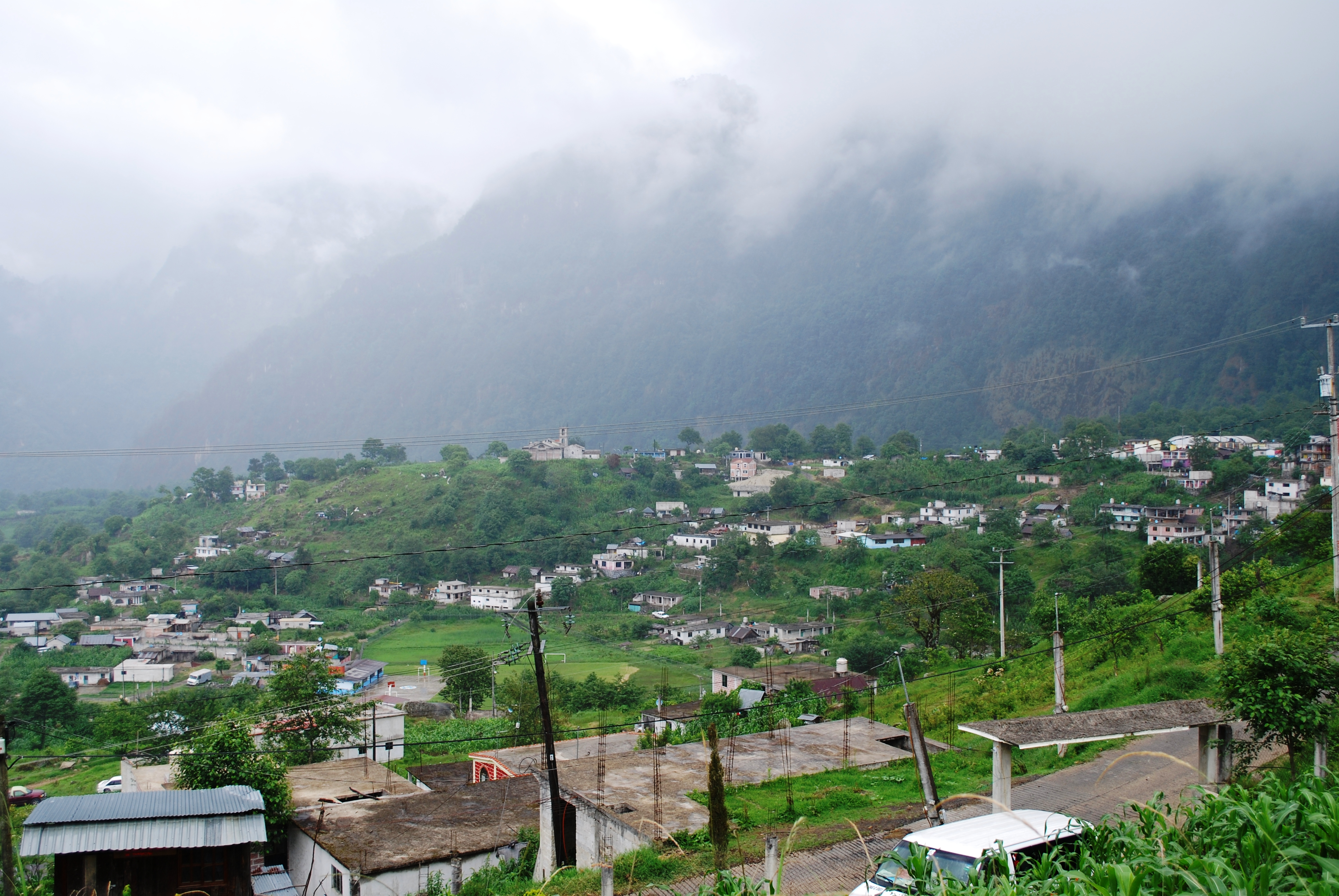 View of Santa Monica, Tenango de Doria, Hidalgo, Mexico